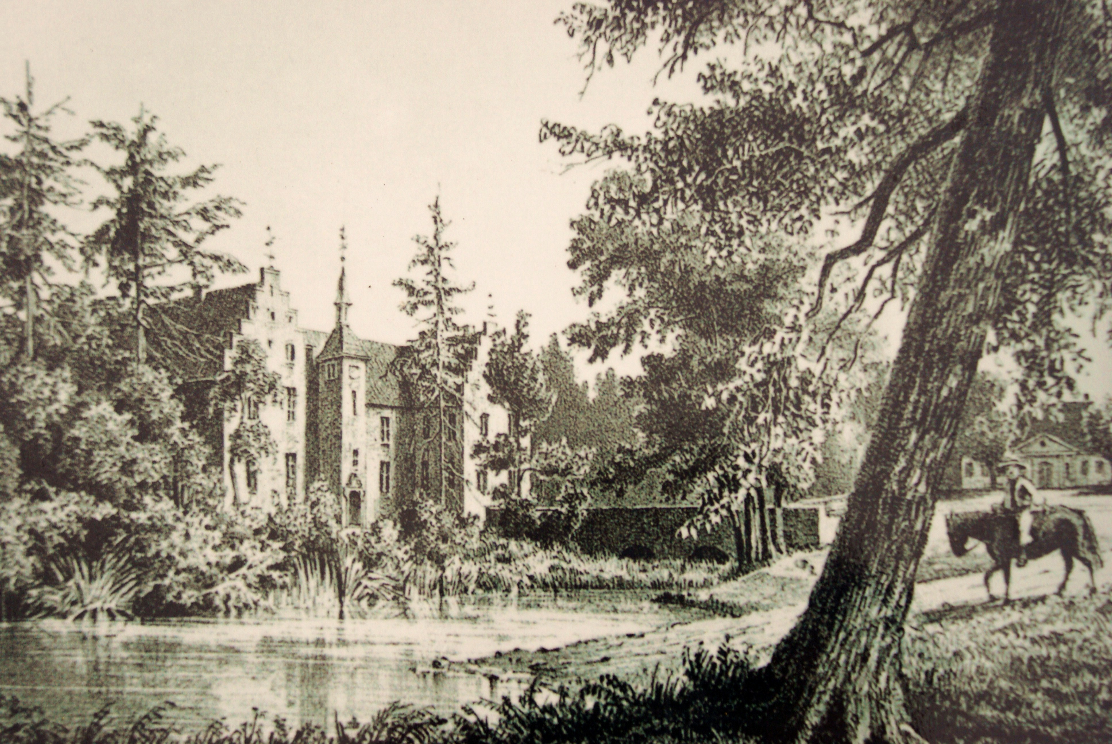 Hagen Manor, 19th Century